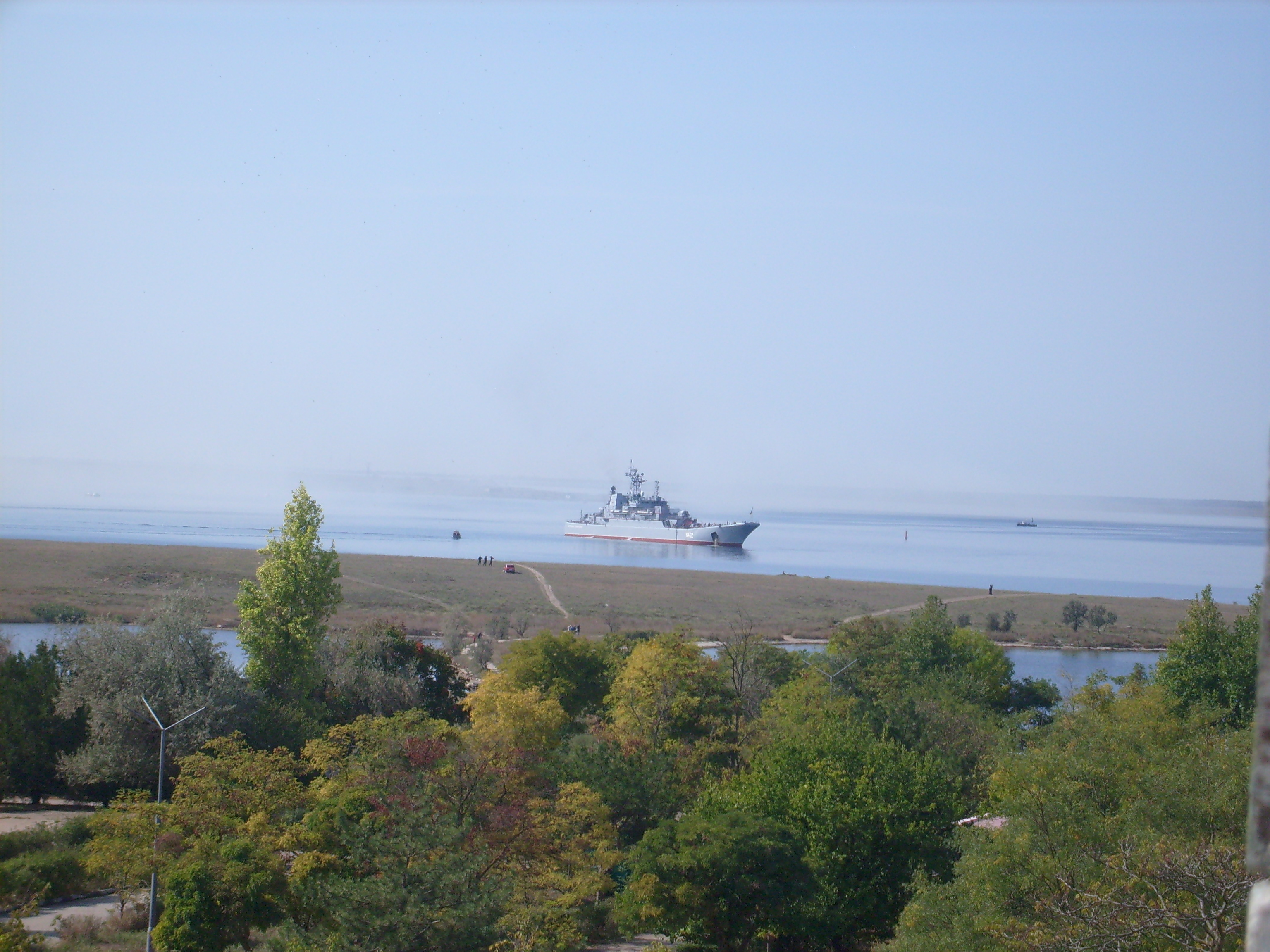 Novoozerno